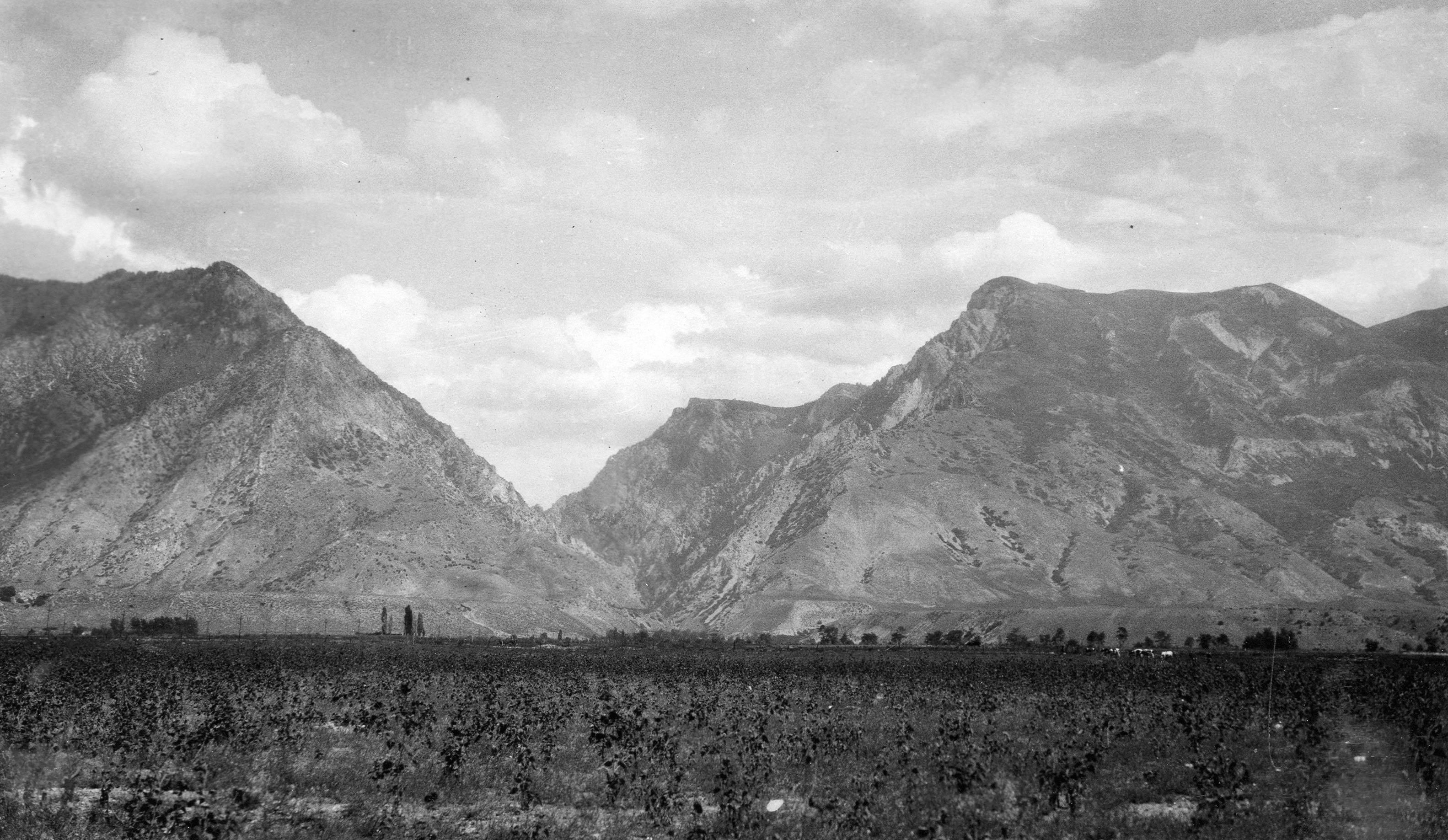 Wasatch Mountains. Looking east to American Fork Canyon. Bonneville terrace (upper) and Provo terrace of Lake Bonneville.